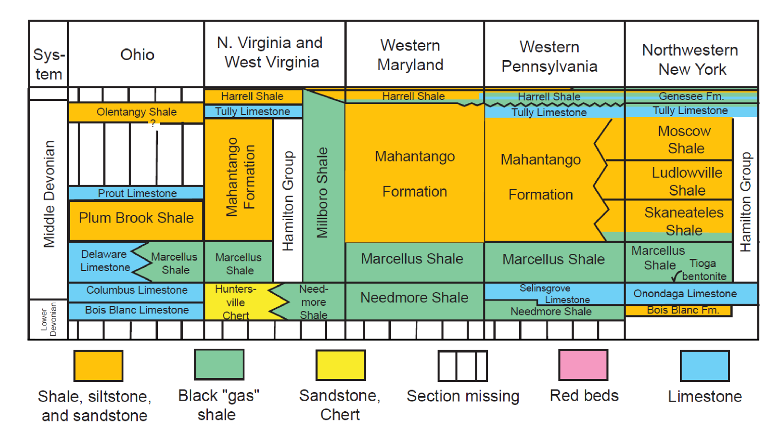 Table 2 of Report 2006 1237 cropped to show only the Middle to uppermost Lower Devonian